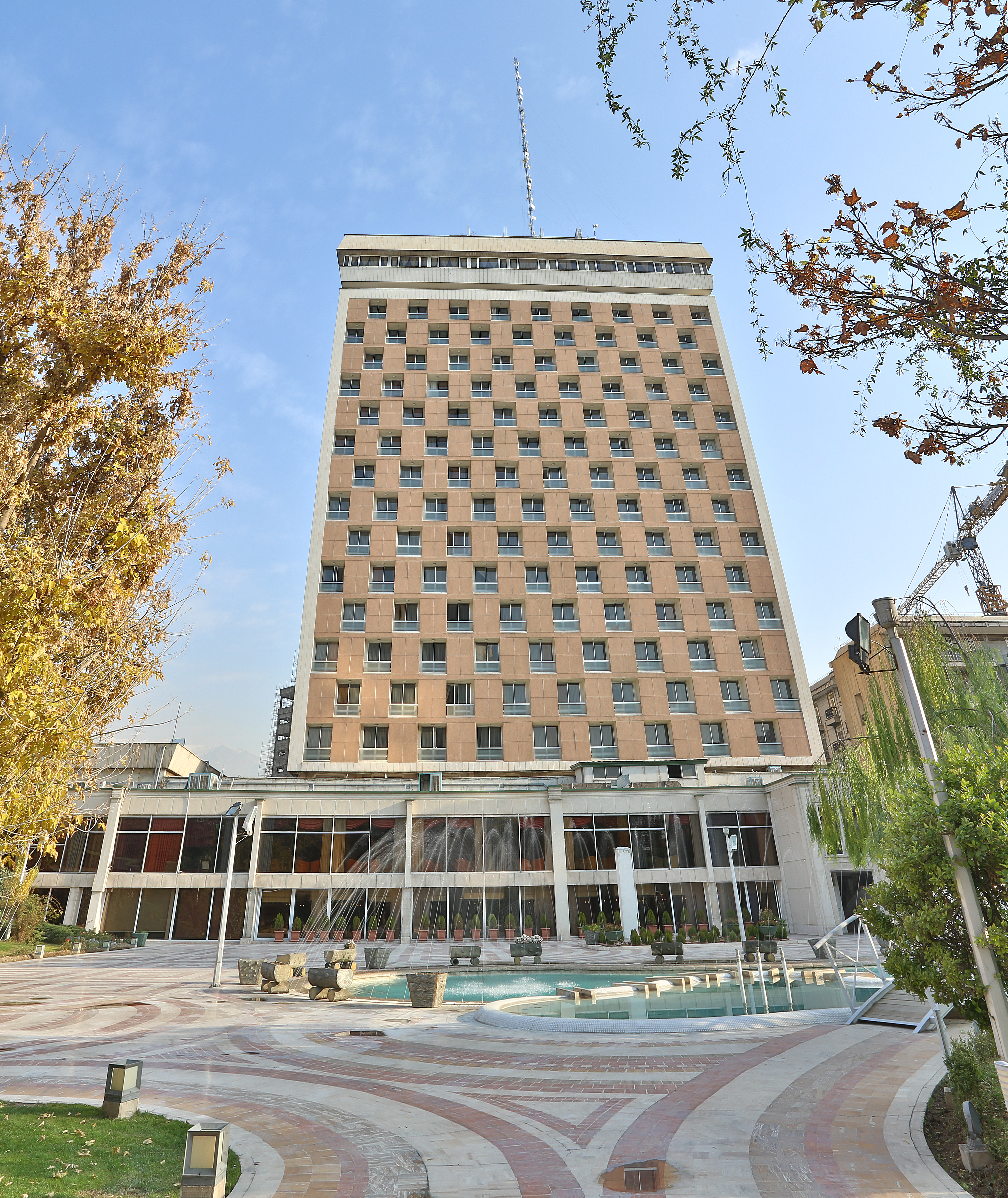 هتل هما تهران